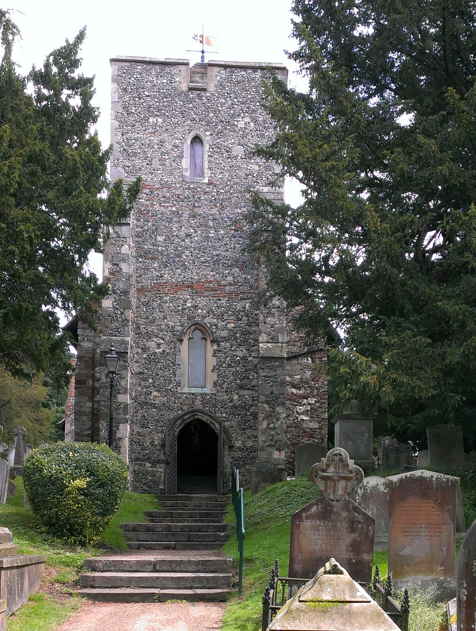 West front of St Martin's parish church, Canterbury, Kent